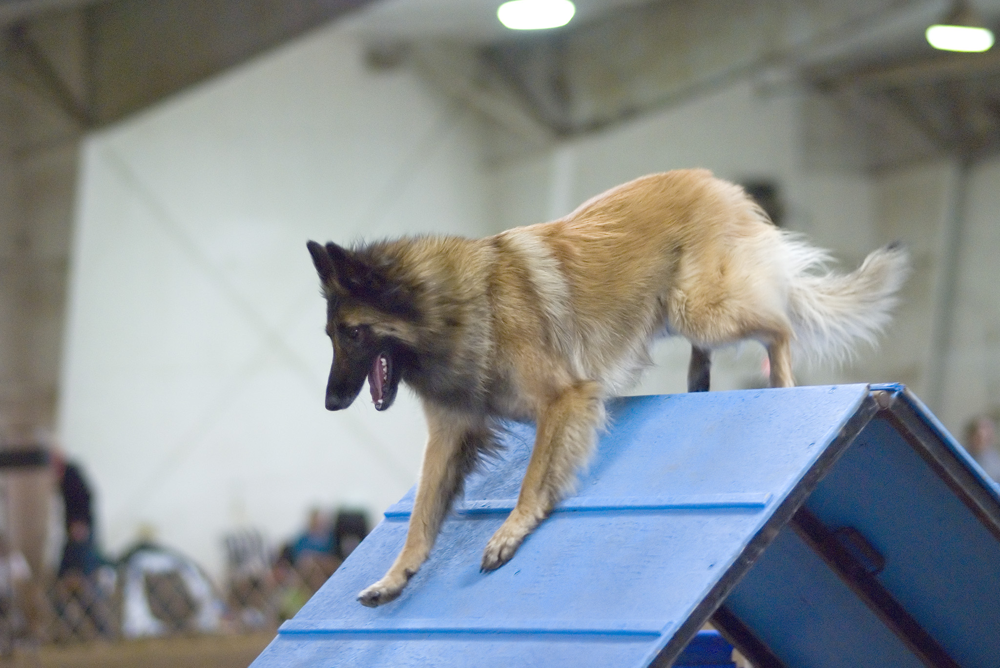 A Belgian Tervuren during an agility competition.